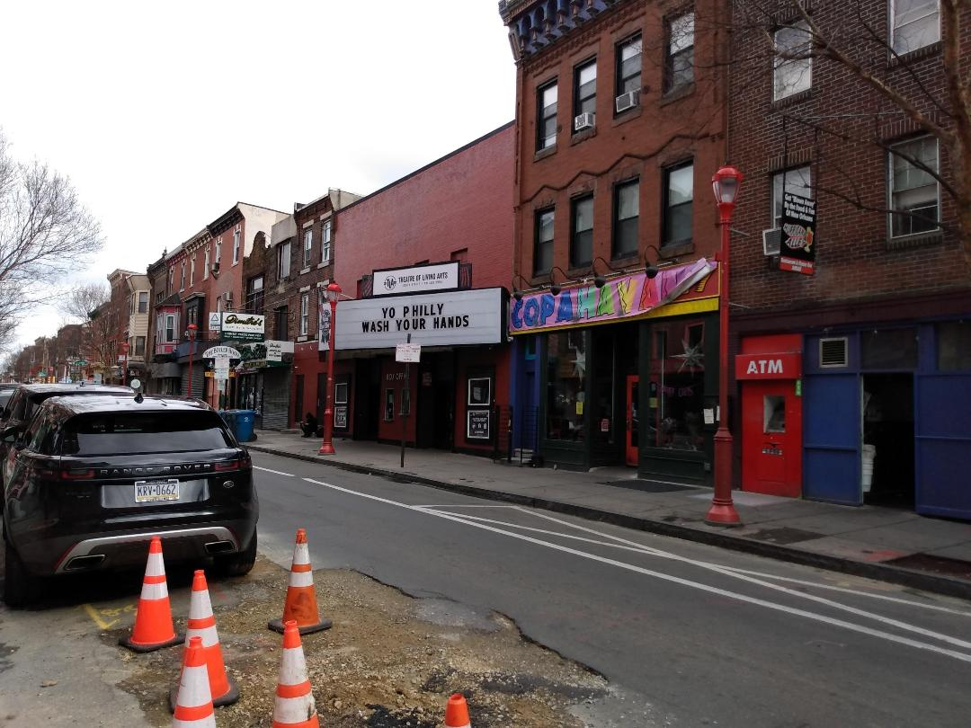 The TLA on March 17, 2020 during the City of Philadelphia's shutdown during the Coronavirus epidemic.